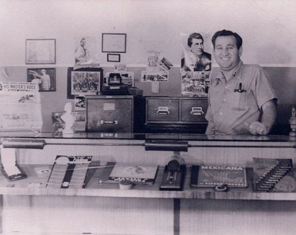 William (Bill) Phillips, owner of Phillips Music Company in Boyle Heights, circa 1950s.